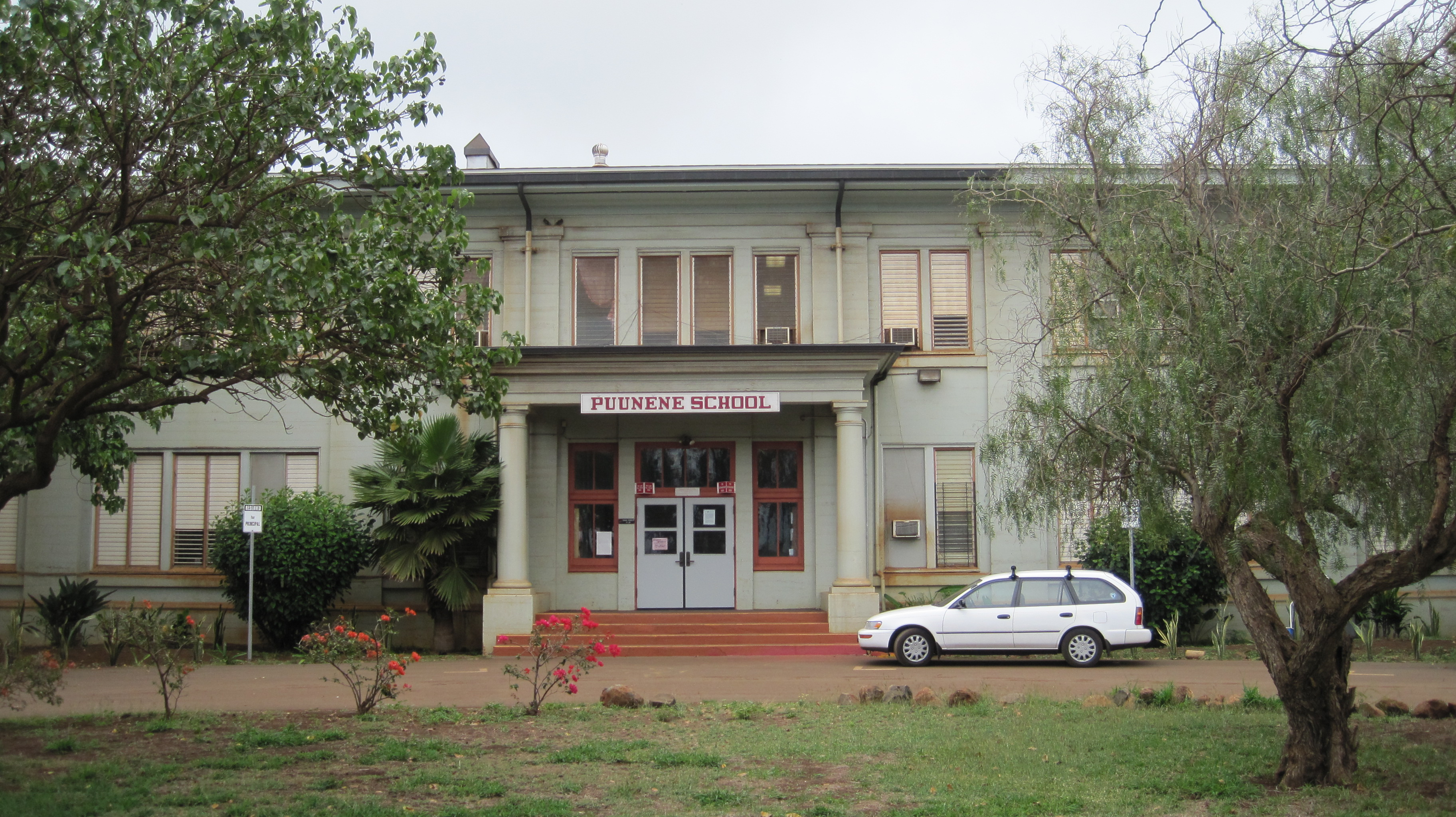 Puunene School front entrance, Puunene, Wailuku, Hawaii, built 1922, on National Register of Historic Places